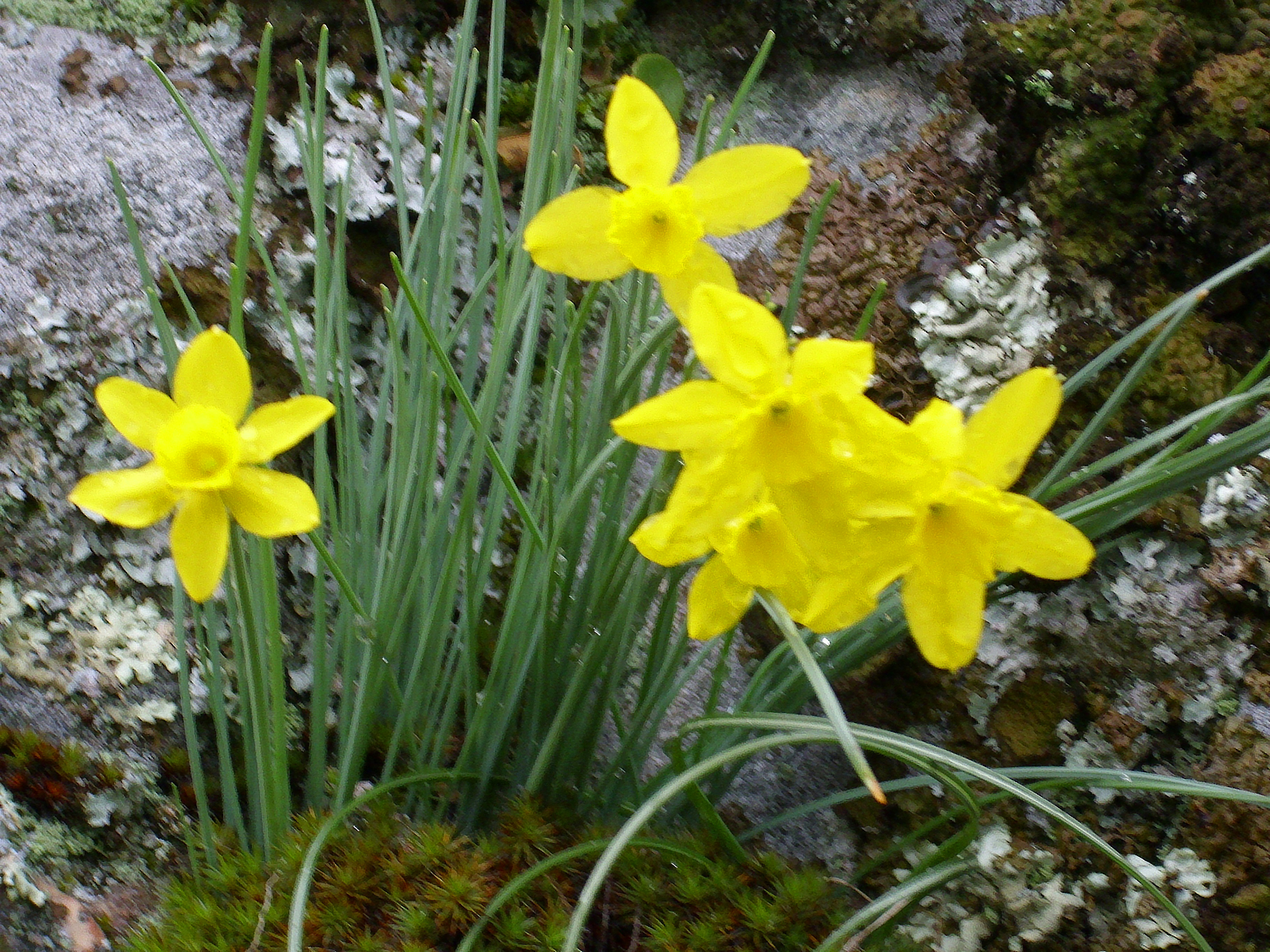 Narcissus rupicola habit, Sierra Madrona, Spain